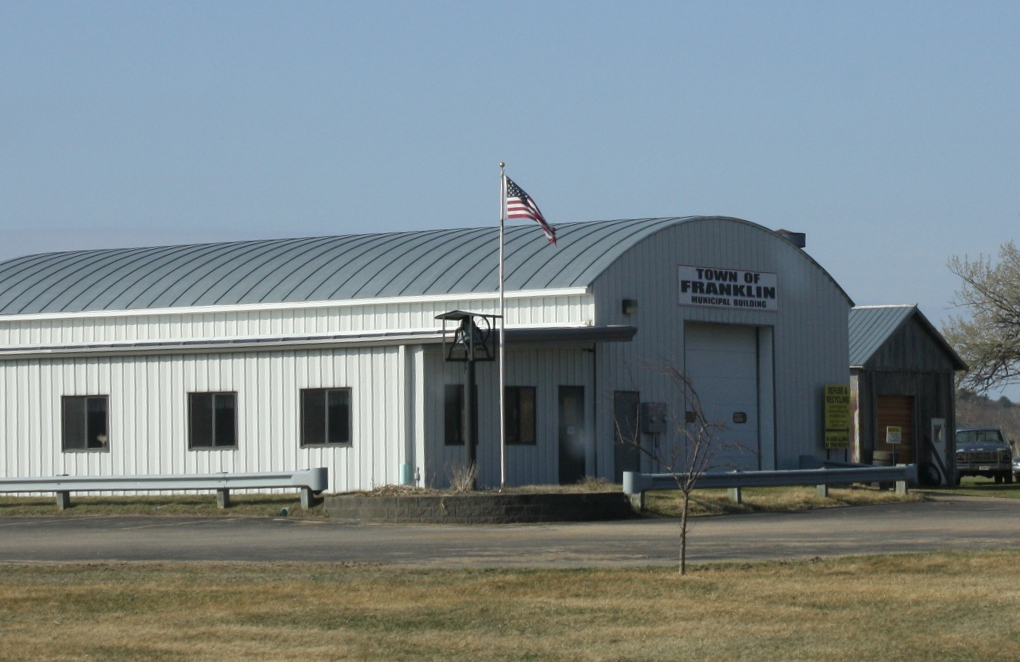 The town hall in Franklin, Jackson County, Wisconsin.